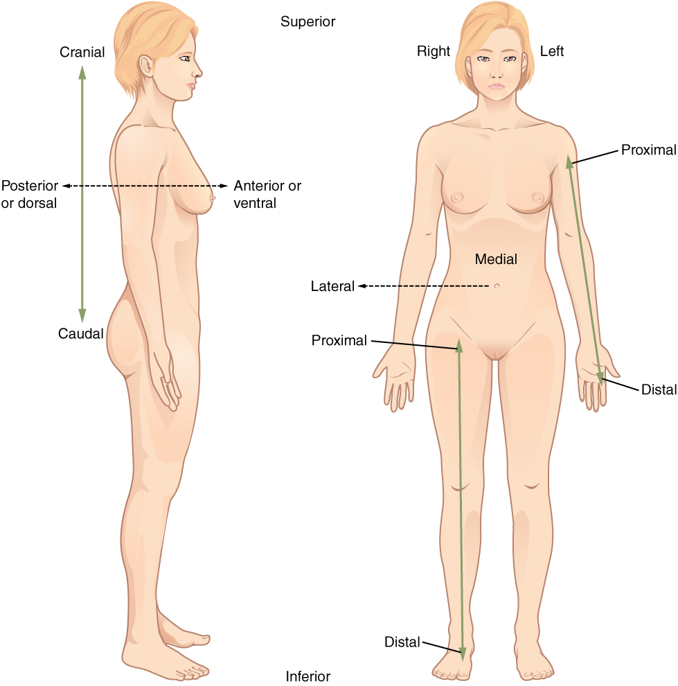 Caption: Paired directional terms are shown as applied to the human body. URL